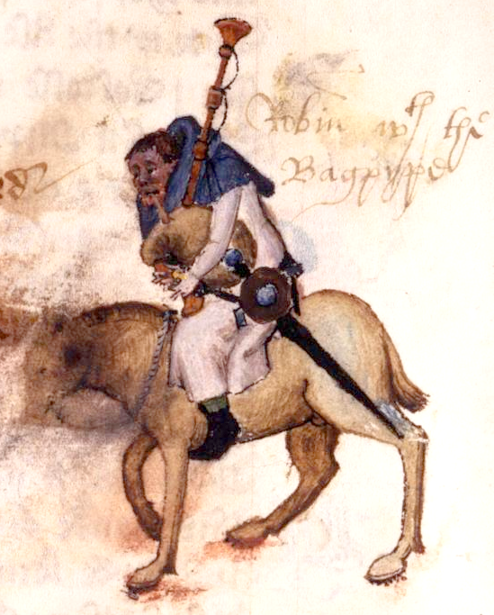 Miniature illustration of Robin, the Miller, with a 16th century note "Robin with the Bagpype" from folio 34v of the Ellesmere Manuscript of Chaucer's Canterbury Tales. Robin is playing a bagpipe while riding a horse. This version has been modified from the original to bring out details not readily apparent in the photographic reproduction.